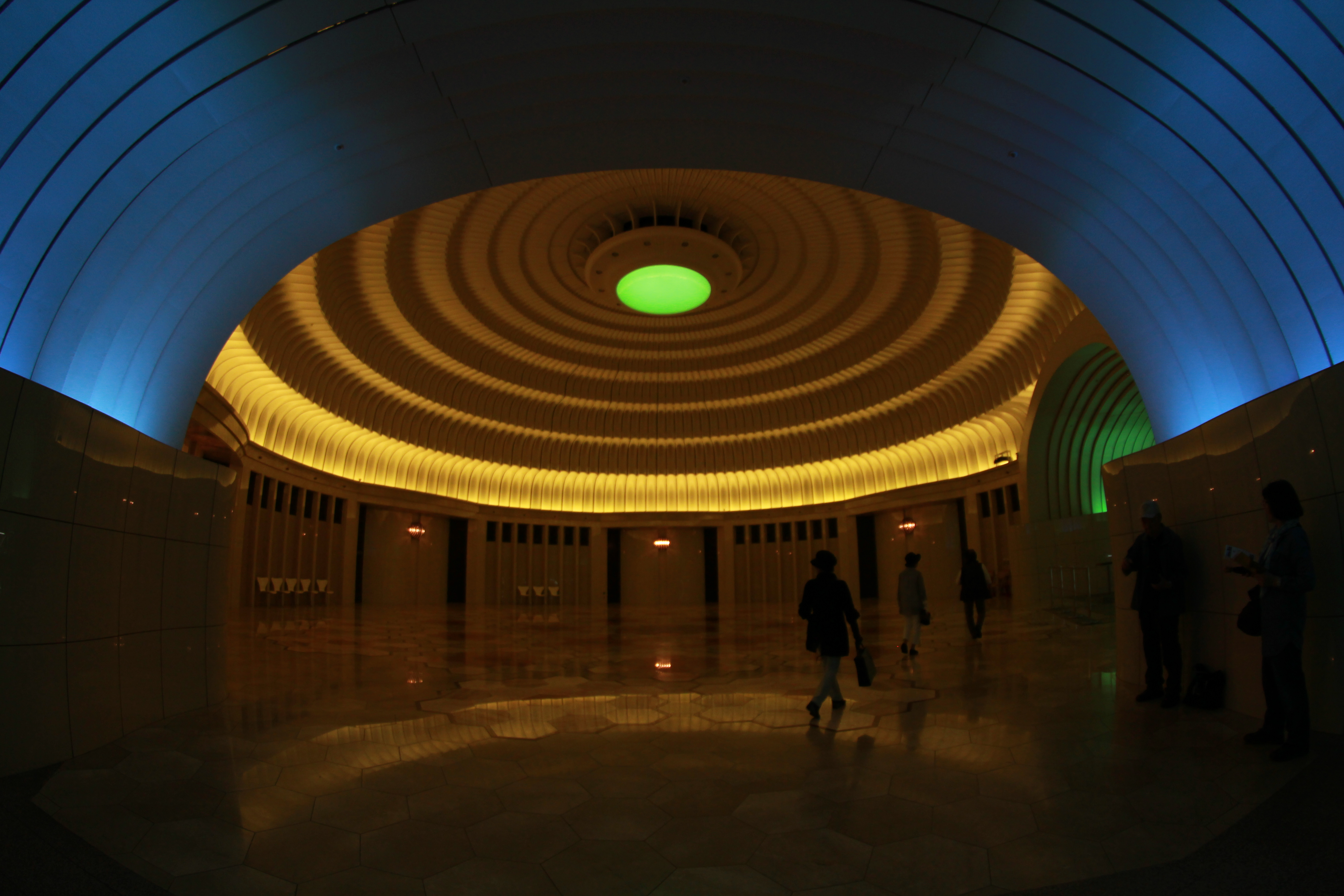 Past the first flight of stairs after the entrence at the Atami Museum of Modern Art.